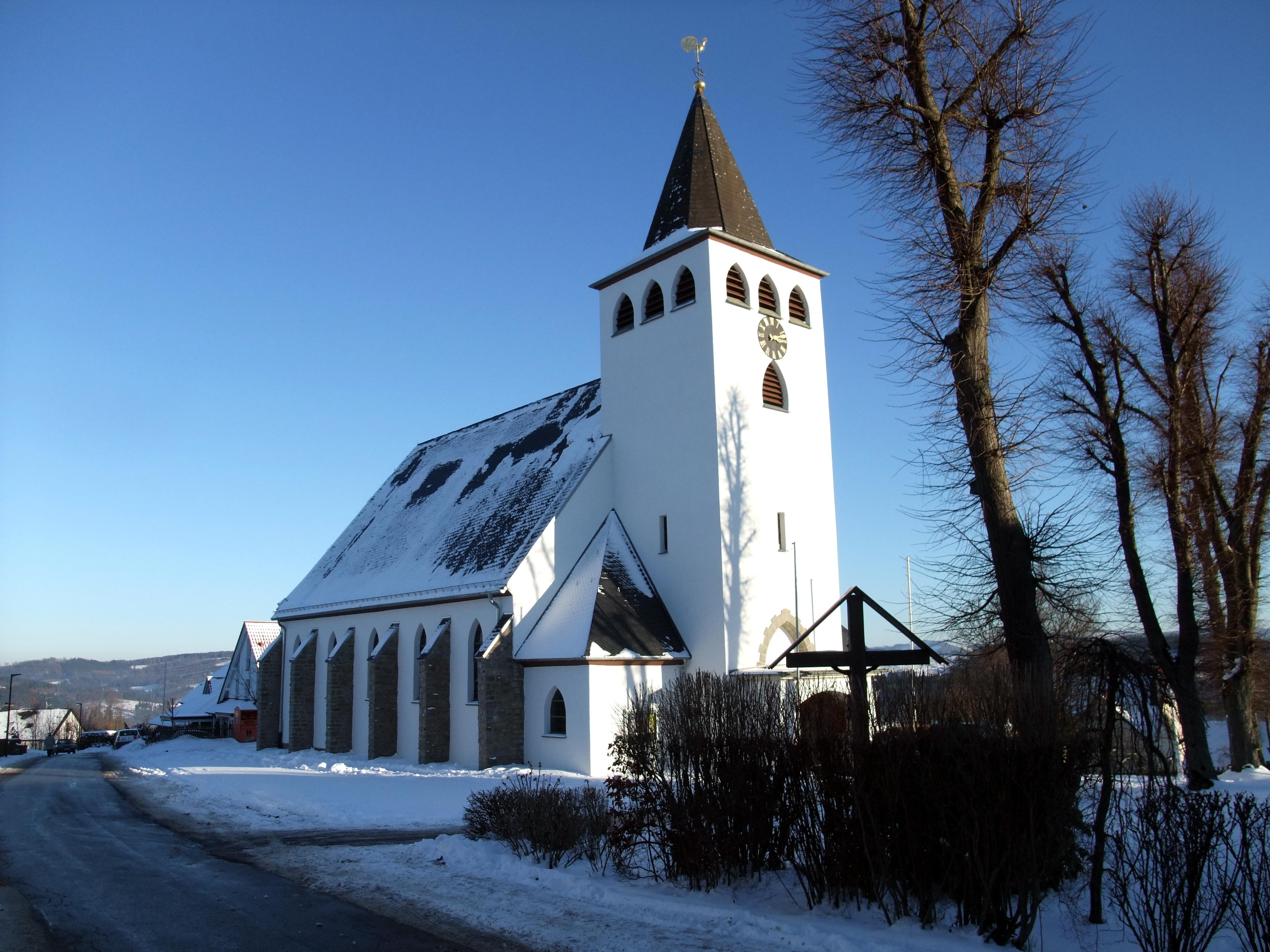 Parrish church St. Anthony of Langscheid (Sundern)